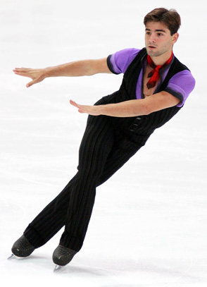 Yannick Ponsero at the 2009 Nebelhorn Trophy.